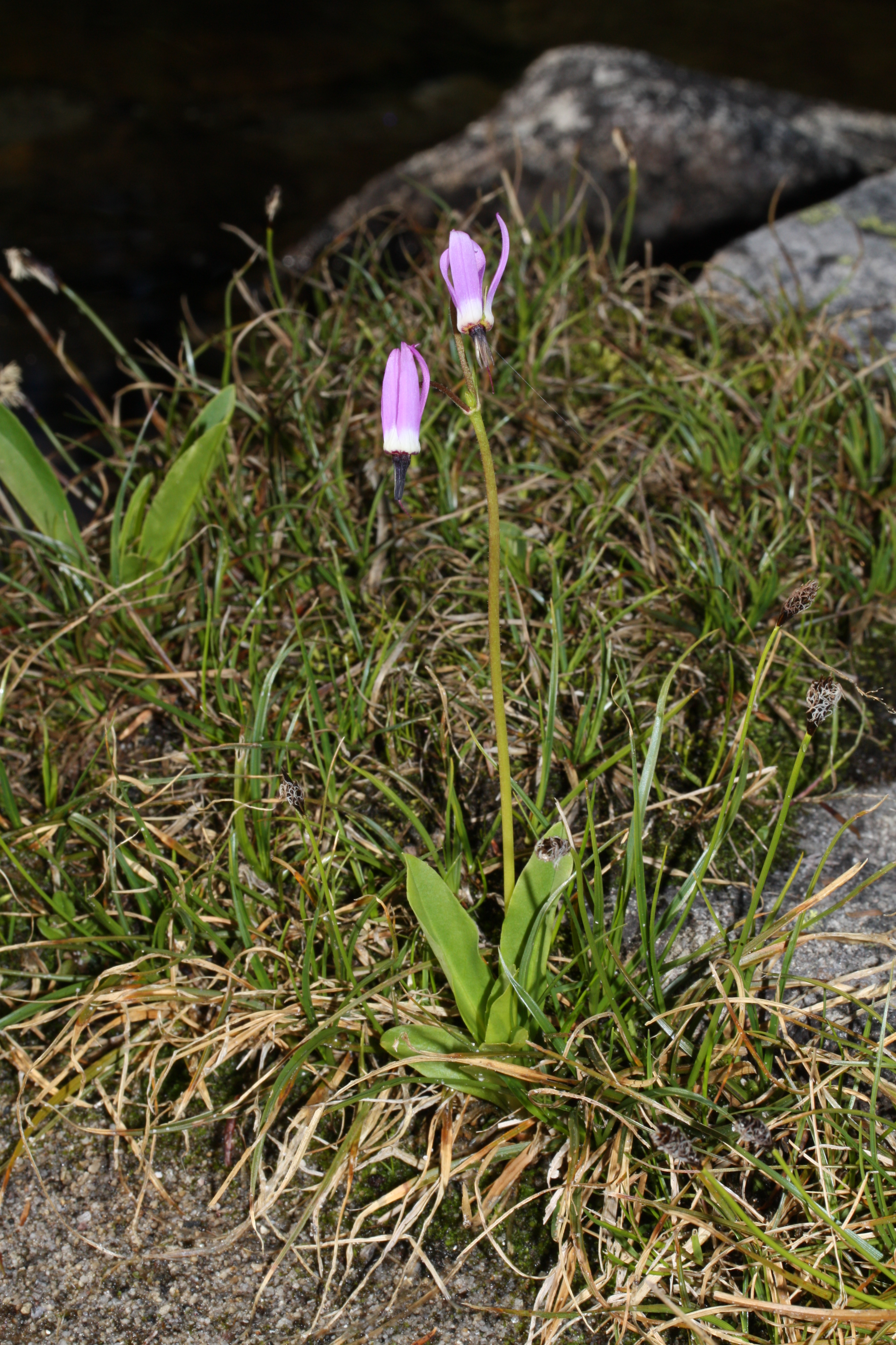 Sierrra Shooting Star, Tall Mountain Shooting Star, Jeffrey's Shooting Star